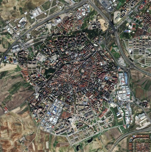 The diverse landscapes of the autonomous Community of Madrid in the heart of Spain are evident in this week’s image. The community and country’s capital city is visible near the centre of the image. Zooming in, we can see the Buen Retiro park just east of the city centre with its large, artificial pond. About 3.5 km due north sits the Santiago Bernabéu football stadium. Southeast of the stadium we can see another circular structure: the Las Ventas bullfighting ring. In the upper left corner of the image is the El Pardo mountain and protected natural park, which is popular for mountain biking. The other areas surrounding Madrid are blanketed with agricultural structures. East of the city are large fields along the Jarama river, and more areas of agriculture appearing brown further east still. This image, also featured on theEarth from Space video programme, was taken by the Sentinel-2A satellite on 16 November 2015. Launched in June 2015, Sentinel-2 can map changes in land cover such as forest, crops, grassland, water surfaces and artificial cover like roads and buildings in cities. Early results from the mission on mapping changes in land cover are expected to be presented at the upcoming Living Planet Symposium, held in Prague in May. The event brings together scientists and users to present their latest findings on Earth’s environment and climate derived from satellite data.